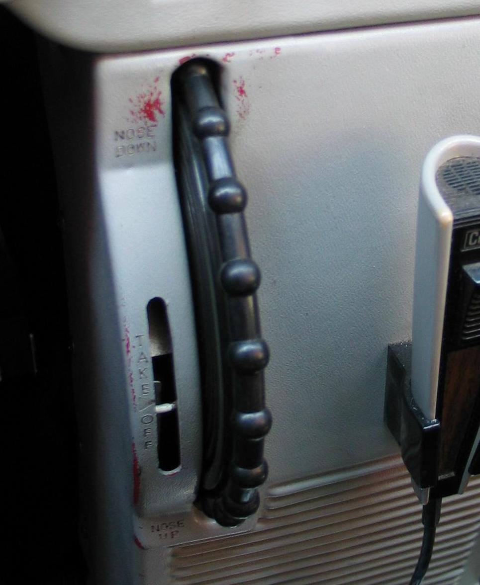 This is the center console of a Cessna 172 (with a landing-gear control for training purposes). The control of interest is the trim control, the vertical black wheel with spherical bumps on it.